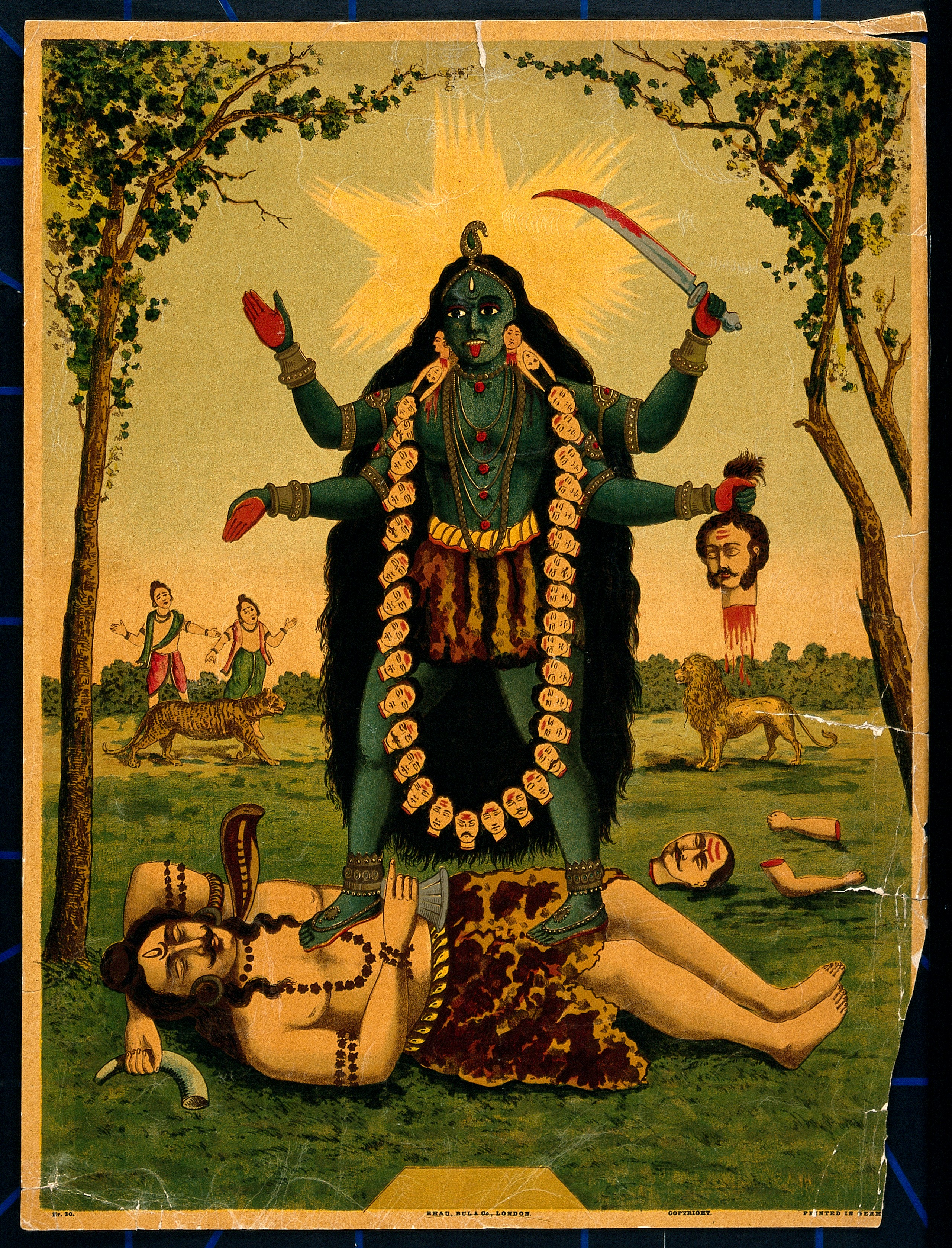 Kali standing triumphantly over Shiva. Chromolithograph. Iconographic Collections